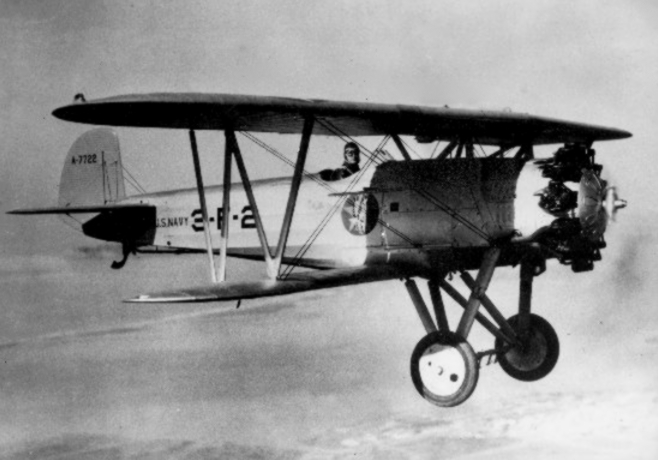 A U.S. Navy Boeing F3B-1 (BuNo A-7722) as delivered, in 1928. This aircraft was assigned to Fighting Squadron VF-2B aboard the aircraft carrier USS Lexington (CV-2).